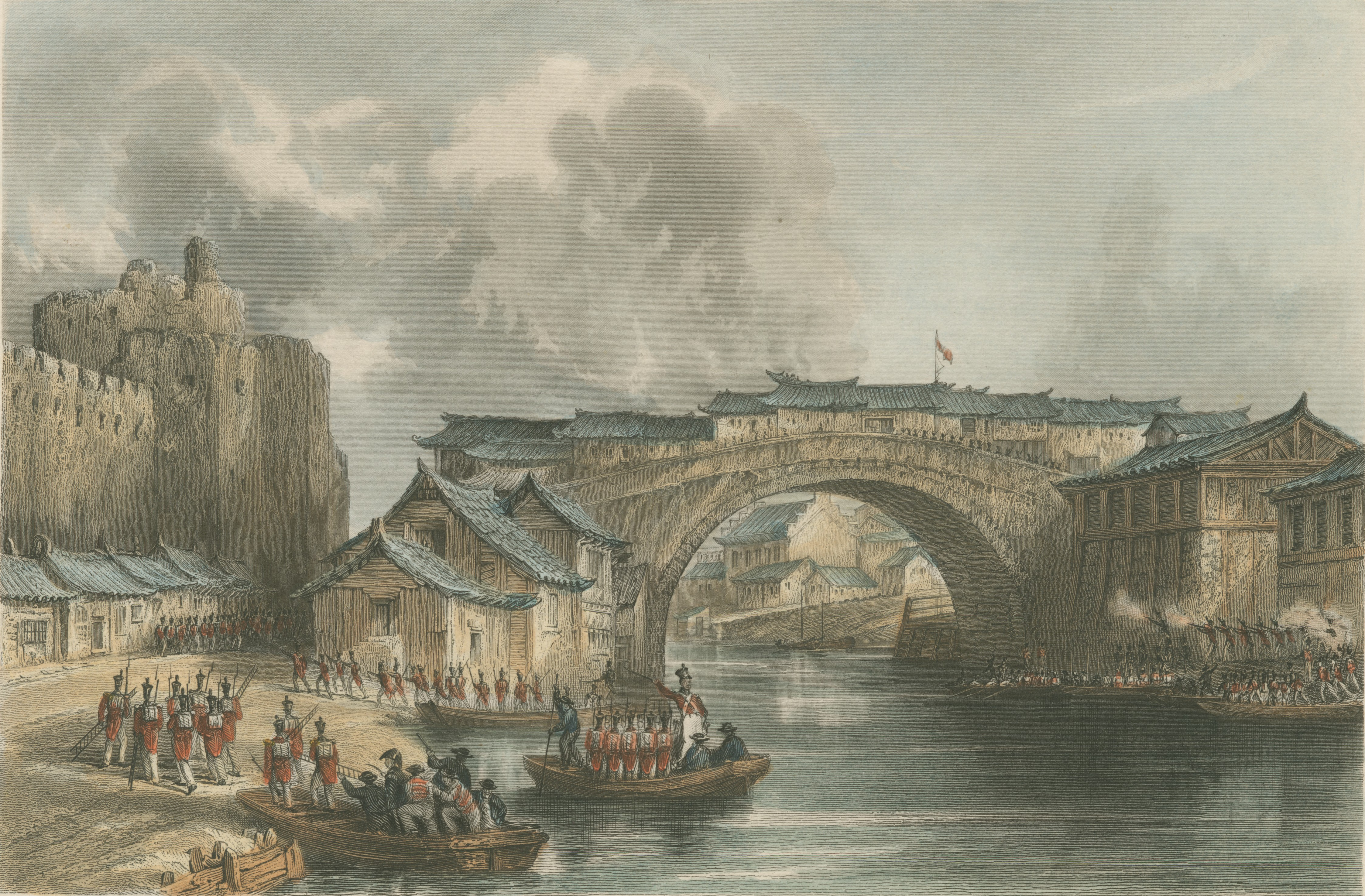 West gate of Ching-Keang-Foo, 21 July 1842.